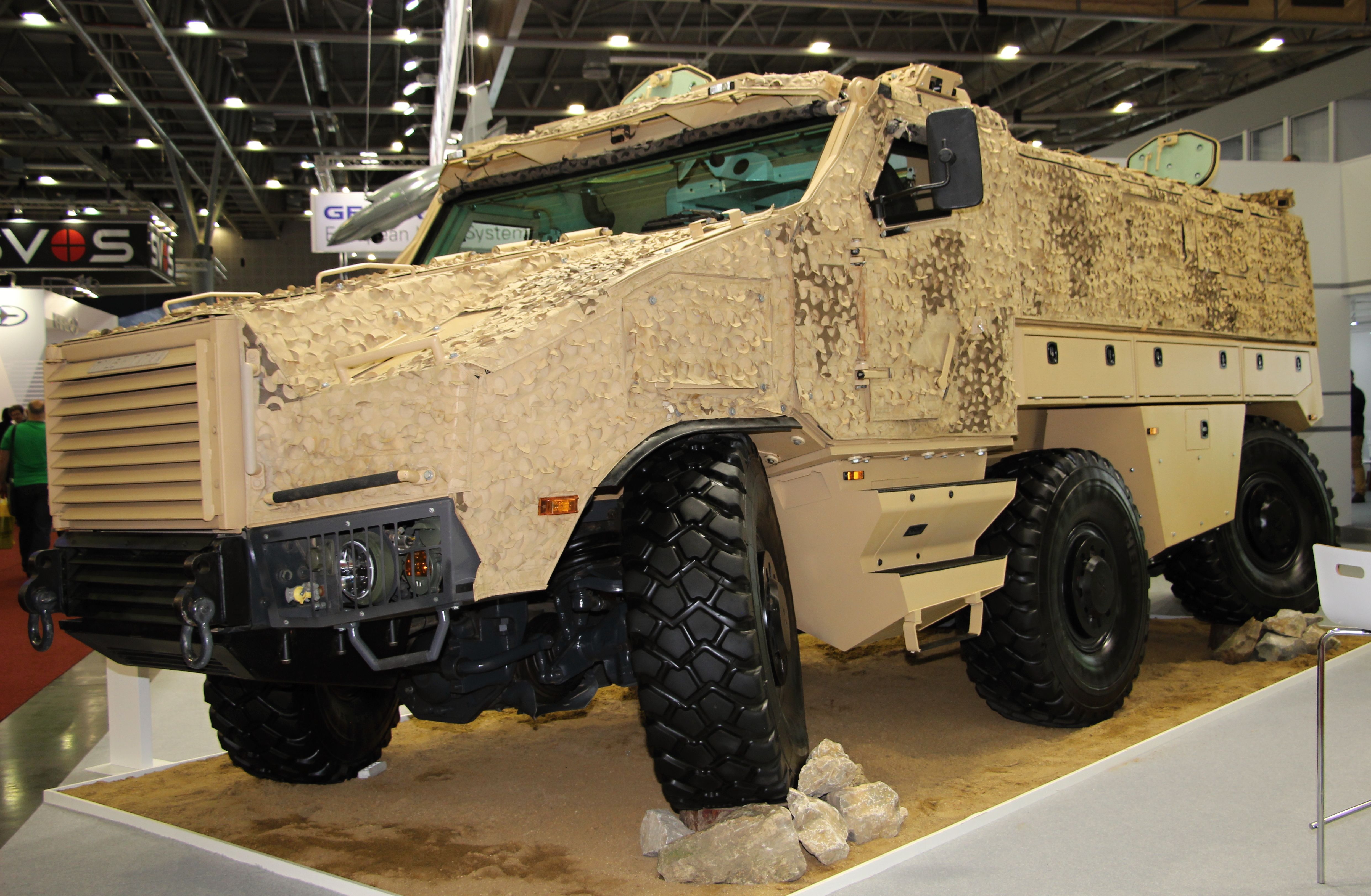 TITUS by NEXTER on TATRA chassis, IDET 2017, Brno Exhibition Center, Czech Republic